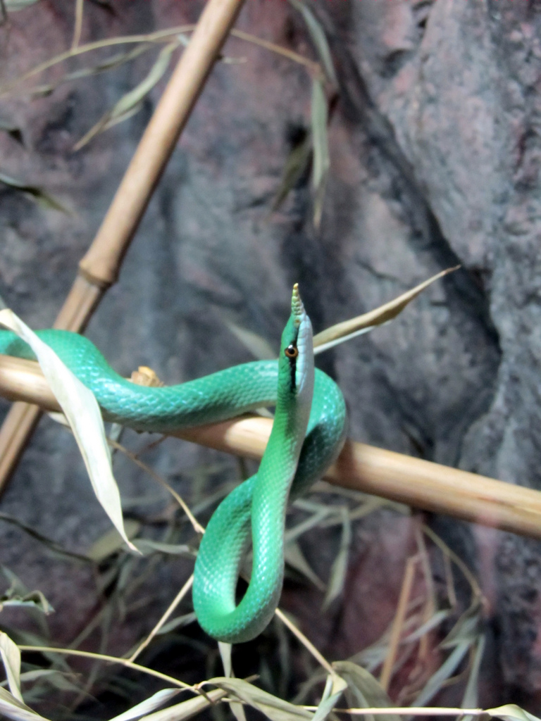 Vietnamese Long-nosed Snake (Rhynchophis boulengeri)